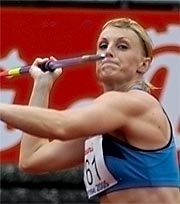 Christina Scherwin, Danish athlete.